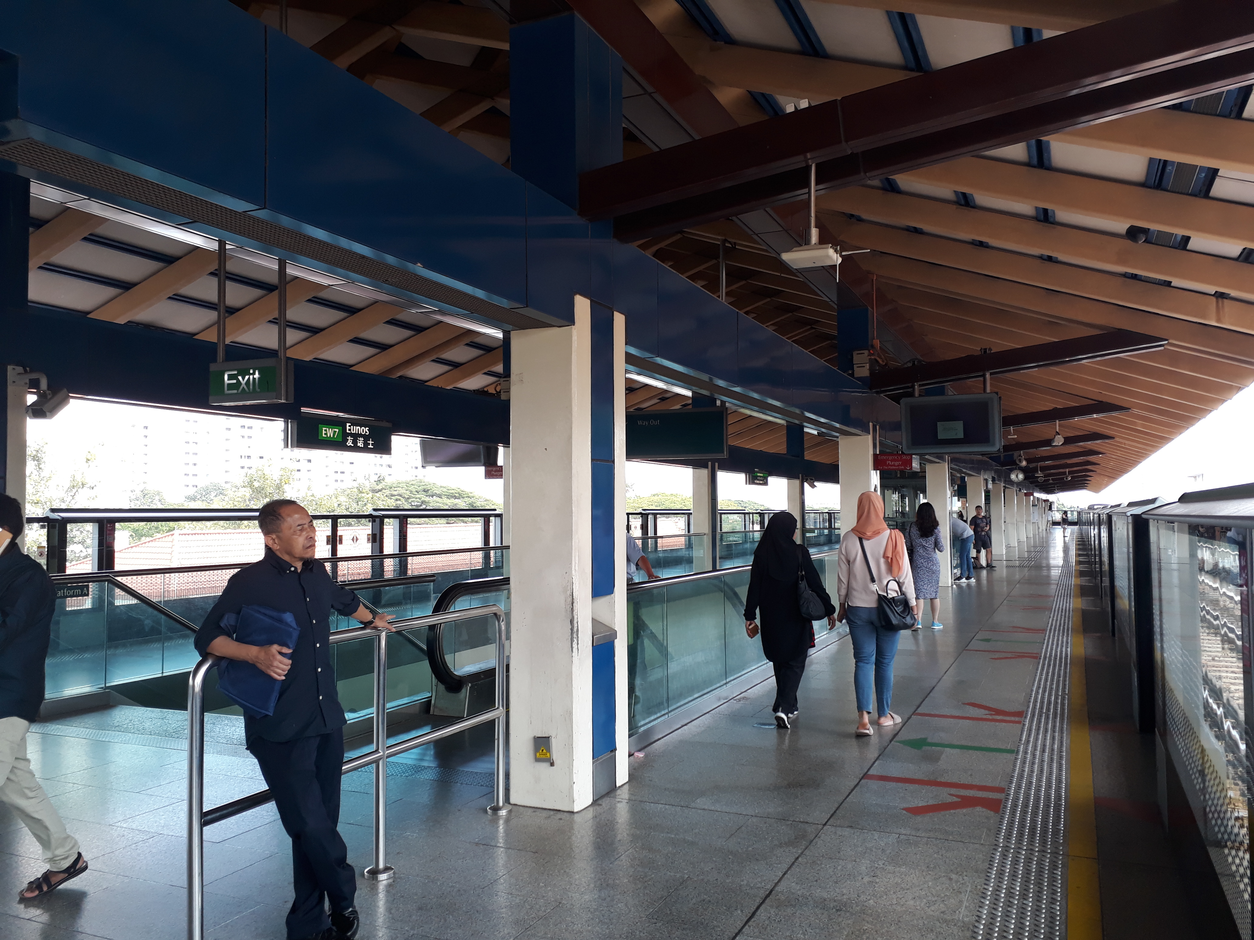 Platform of Eunos MRT